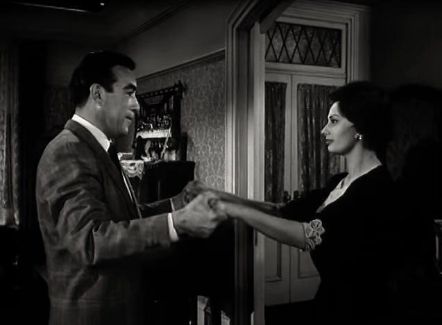 Anthony Quinn and Sophia Loren in The Black Orchid (1959) - trailer (cropped screenshot).